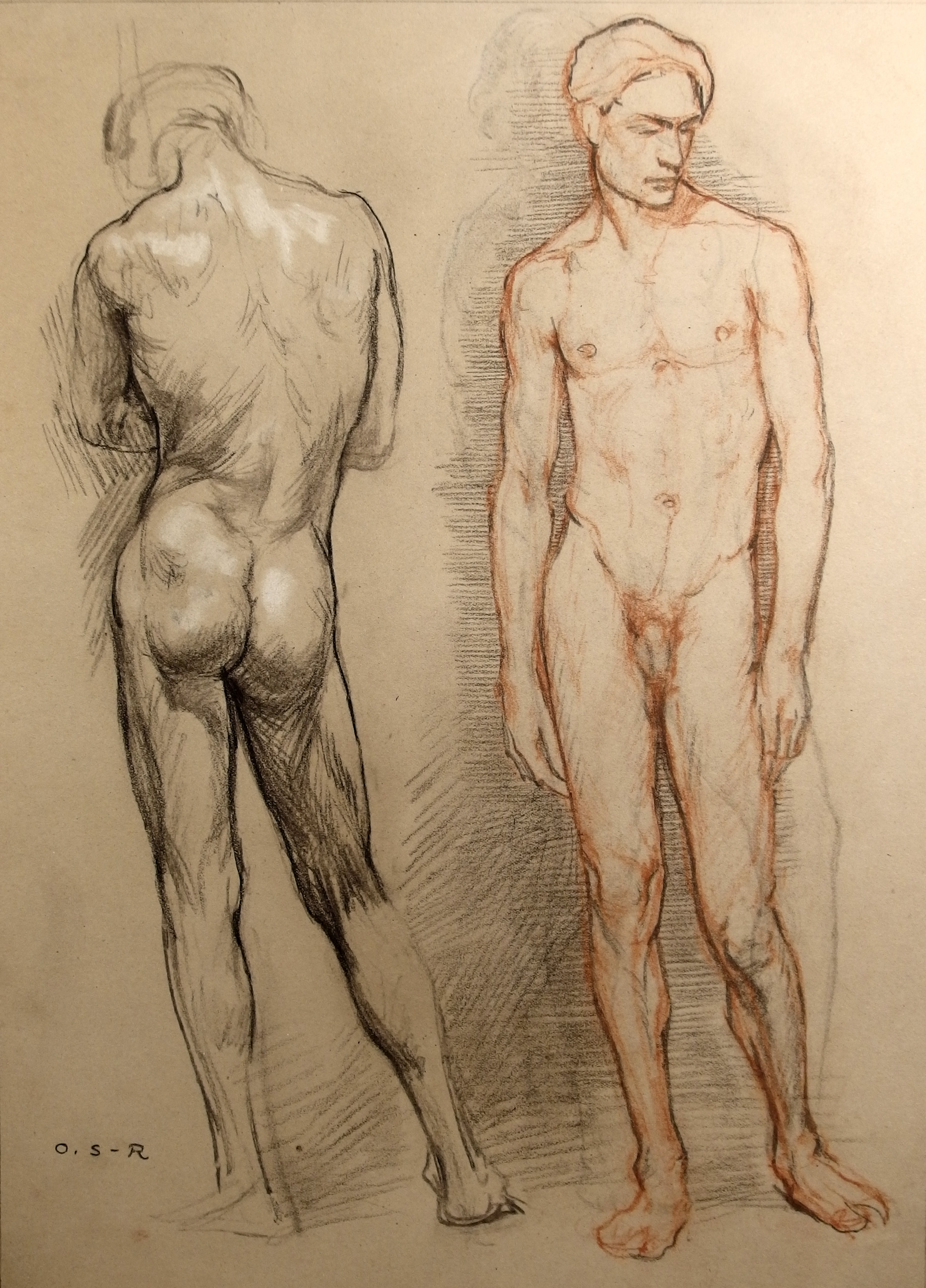 Otto Sohn-Rethel, study from the nude, pencil and sanguine on paper, approx. 1929